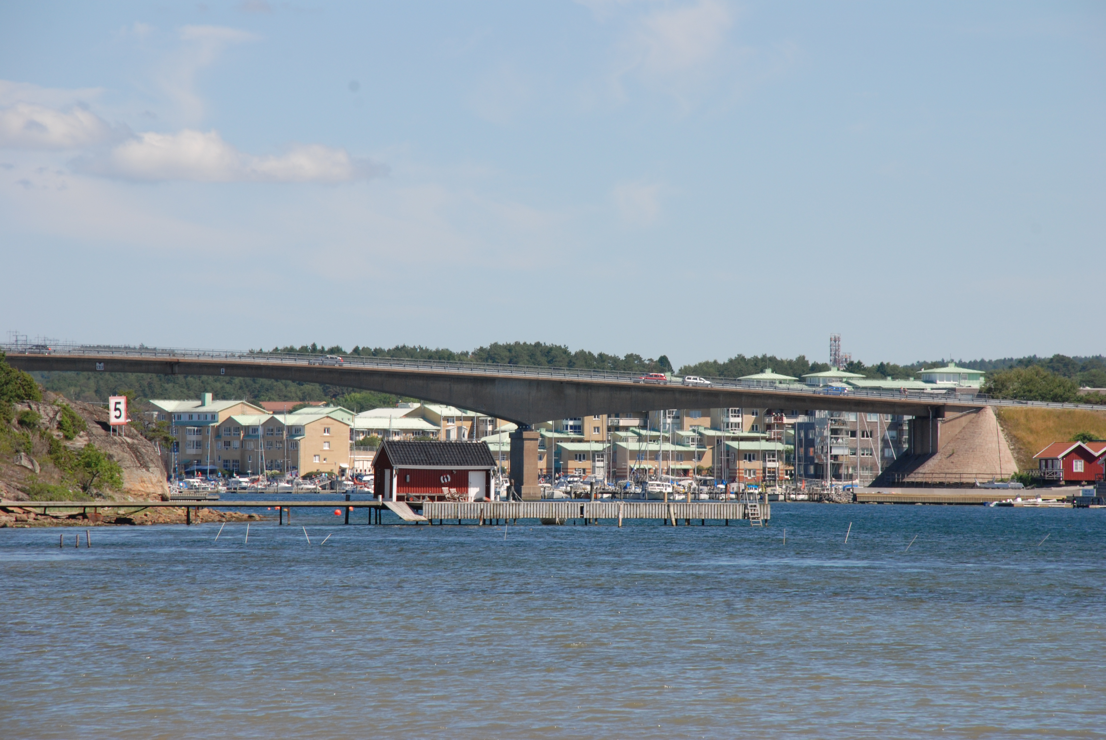 The bridge Stenungsöbron between Stenungsund and the island Stenungsön, one of the bridges connecting the island Tjörn with the mainland at Stenungsund in Bohuslän, western coast of Sweden.